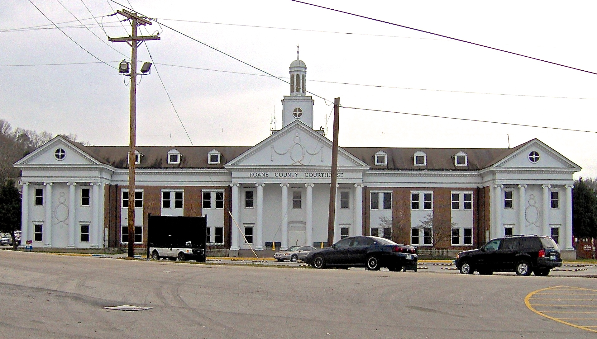 The Roane County Courthouse in Kingston, Tennessee, located in the Southeastern United States.